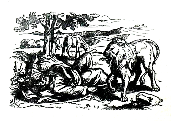 The lion kill the prophet, that beforehand was forewarn Jeroboam (Dvakrat pedeszet i dve Bibliszke Historie, 1878) in prekmurian language (prekmurščina.